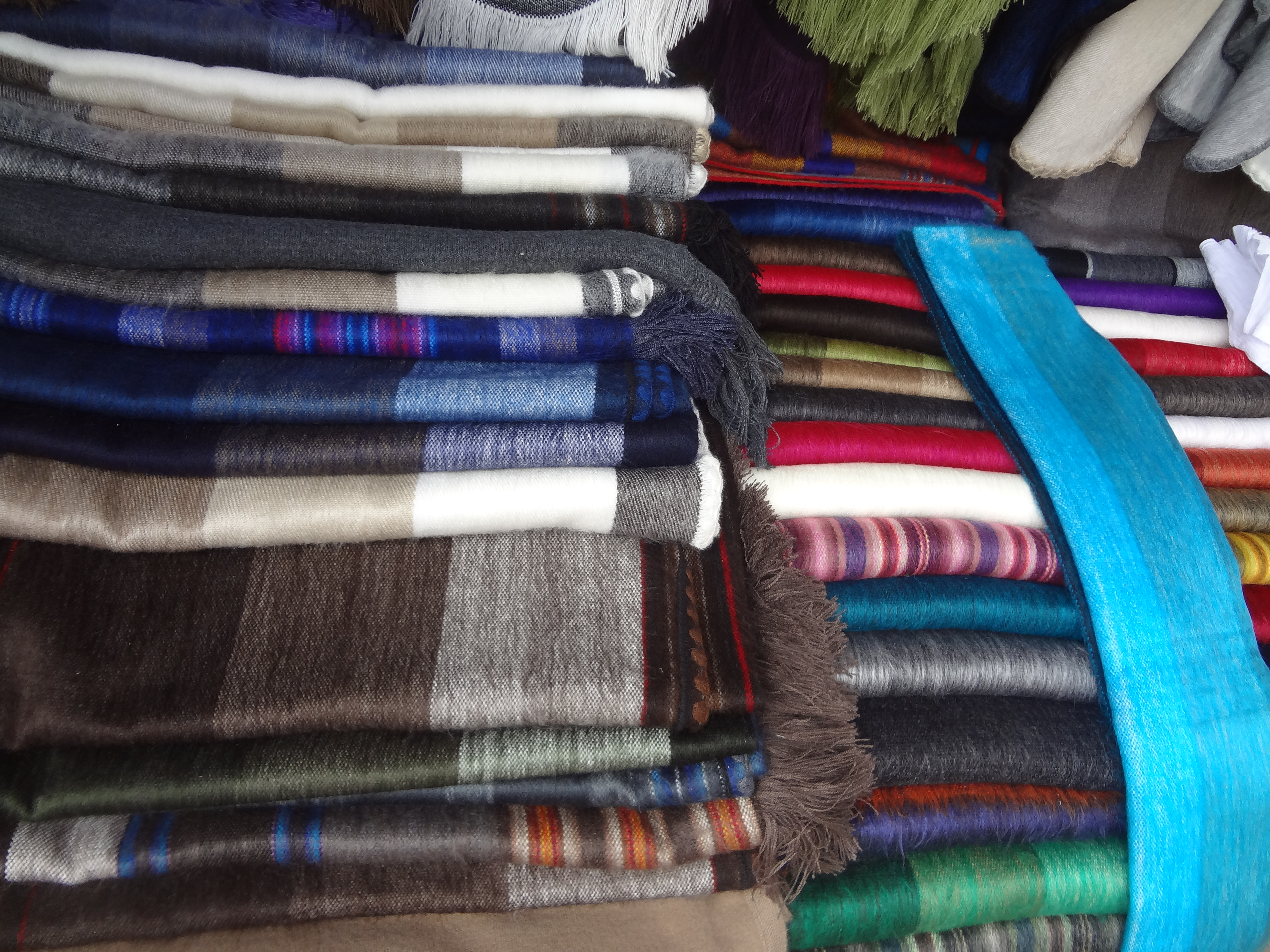 Otavalo Artisan Market - Andes Mountains - South America